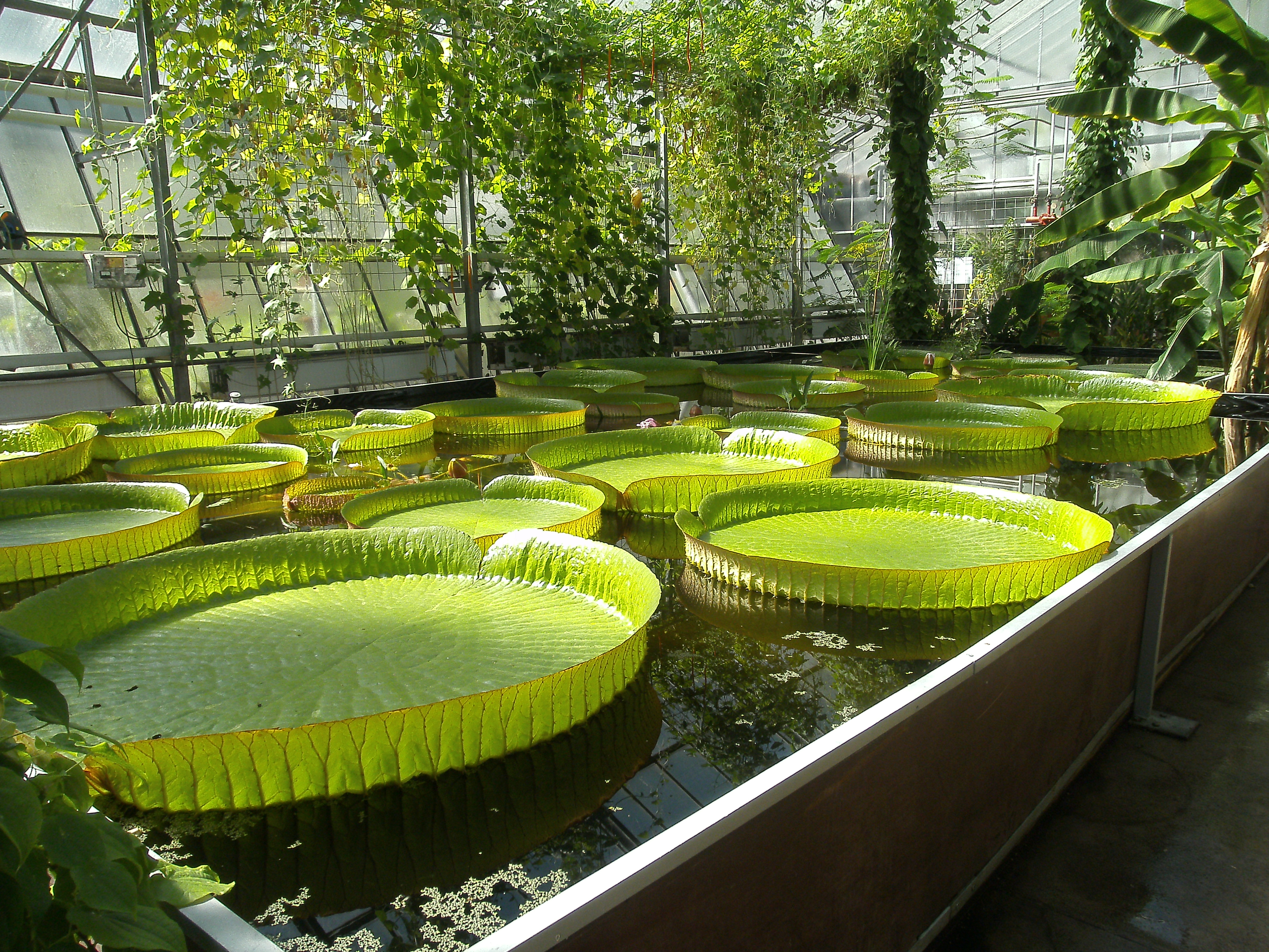 Giant water lily in the Bochum botanical garden.